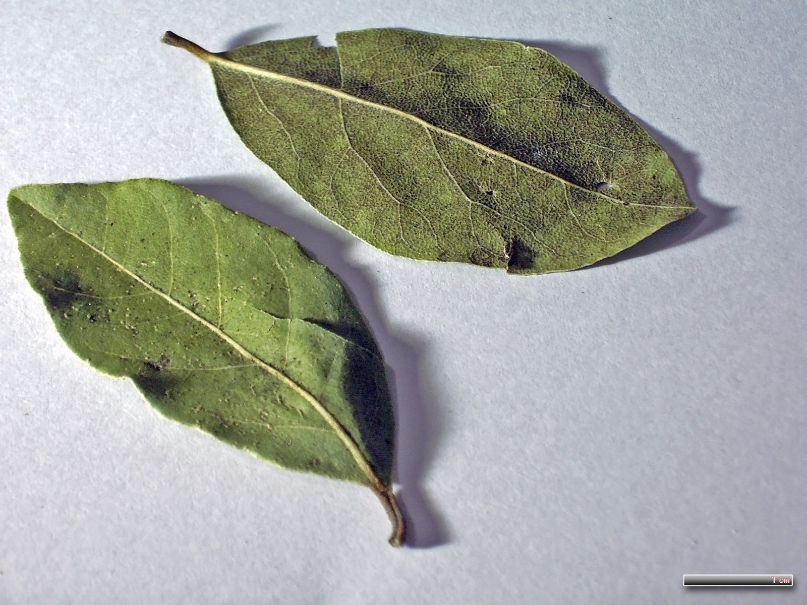 dried Bay Laurel (Laurus nobilis, of the Lauraceae family), also known as Sweet Bay, Bay Tree, True Laurel, Grecian Laurel, Laurel Tree, or simply Laurel leaves